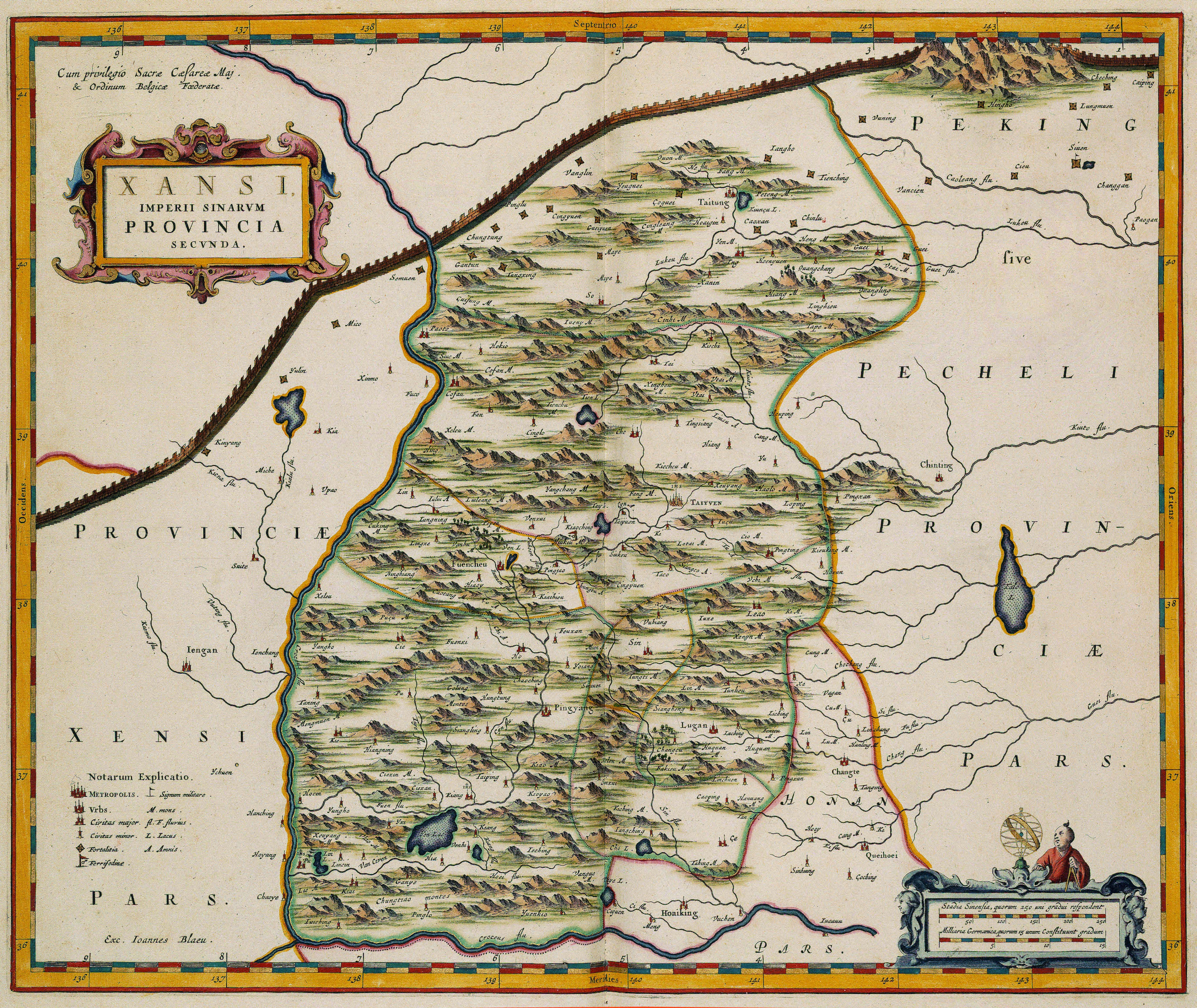 The map of the Chinese province Shanxi was part of an atlas of China composed by the Italian missionary Martino Martini (1614-1661). On his way back to Rome, Martini stopped in Amsterdam where he sold his atlas to Joan Blaeu (1598-1673). From 1655 Blaeu published Martinis atlas as the Atlas Sinensis", the atlas of China, in several languages. The Atlas Sinensis also became an integral part of the Atlas Maior in 1662. The north of Shanxi borders the Great Wall and is clearly visible on the map.